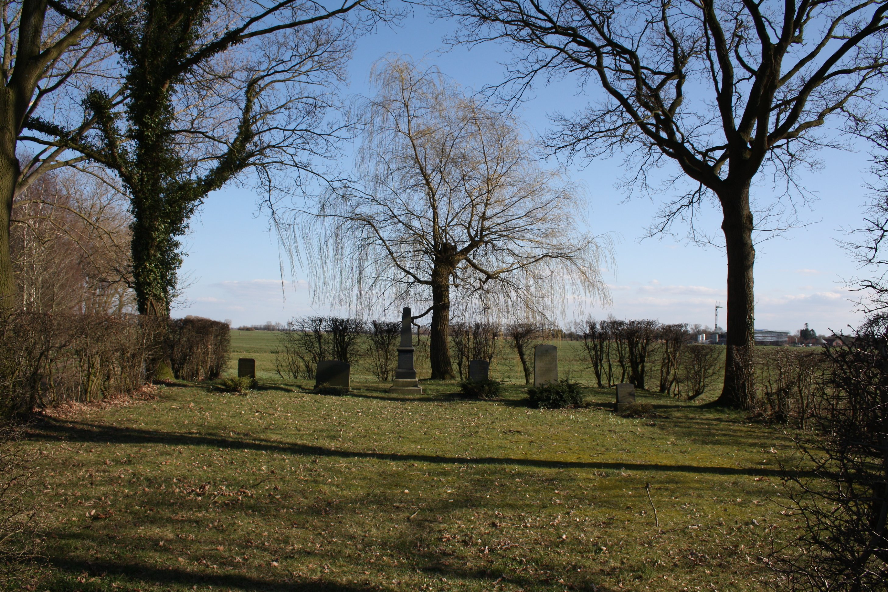 Jewish Cemetery Berne